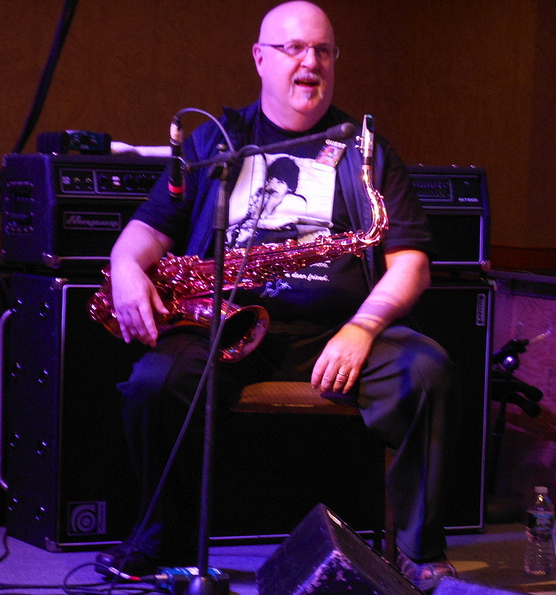 Saxophonist Tom Scott at a Beatles convention in Secaucus, New Jersey in 2013, cropped version